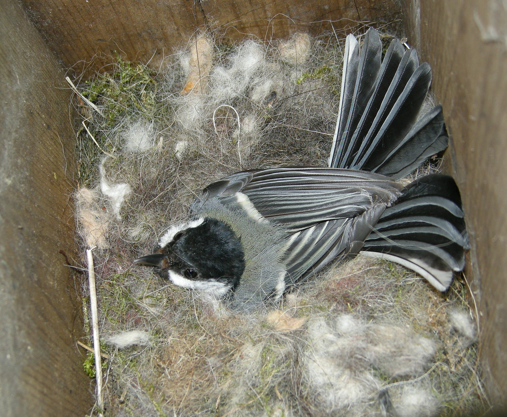 Great tit